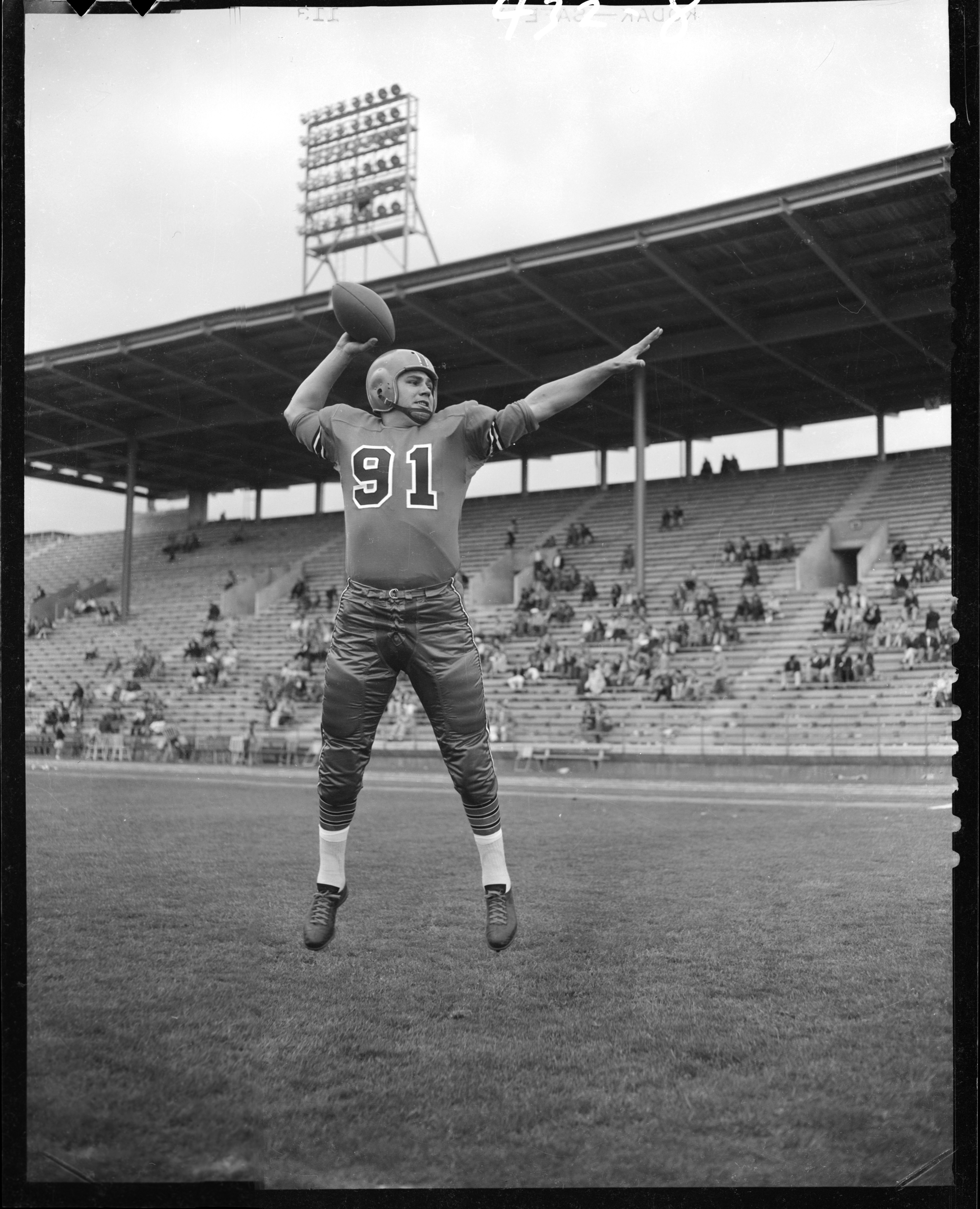 B.C. Lions football club,Johnny Mazur, B.C. Lions, Number 91 VPL Accession Number: 84780i Date: July 10, 1954 Photographer/Studio: Jones, Art Content: Part of a series 84780+ (63 photos) Topic: Sports Sports teams Football players Stadiums Costume Sports uniforms Person: Mazur, Johnny (B.C. Lions Football club) Organization: B.C. Lions Football Club Location: British Columbia - Vancouver More information on our historical photograph collection